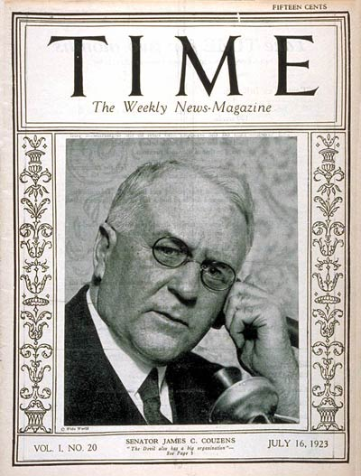 TIME Magazine Cover Featuring James J. Couzens (16 Jul 1923)